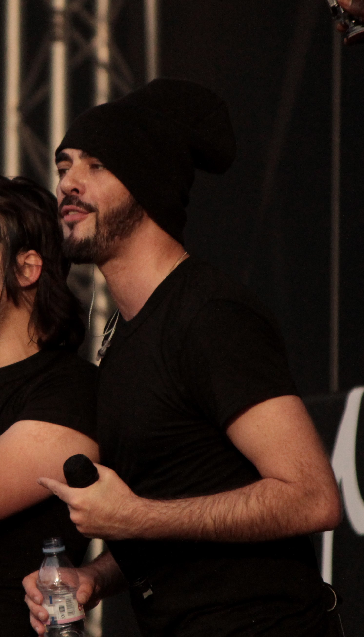 Gringe at the Festival des Vieilles Charrues on 18 July 2014